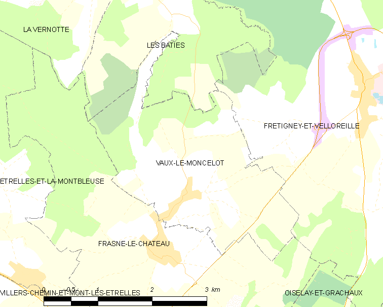 Map of French municipality